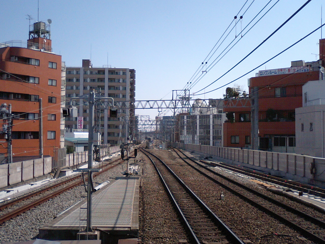 Tracks of Tōkyū Den-en-toshi Line between Mizonokuchi Station and Takatsu Station under construction. 複々線化工事の進む田園都市線溝の口駅～高津駅（溝の口駅ホームから撮影）。